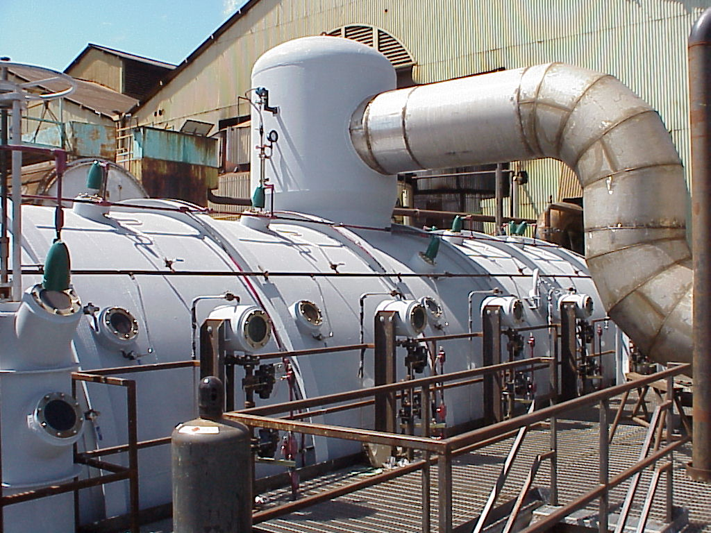 Fives Fletcher (Fives Cail Group) continuous vacuum pan used for sugar crystallization at Hawaiian Commercial & Sugar Company Mill, Puʻunene, Maui — Hawaii.